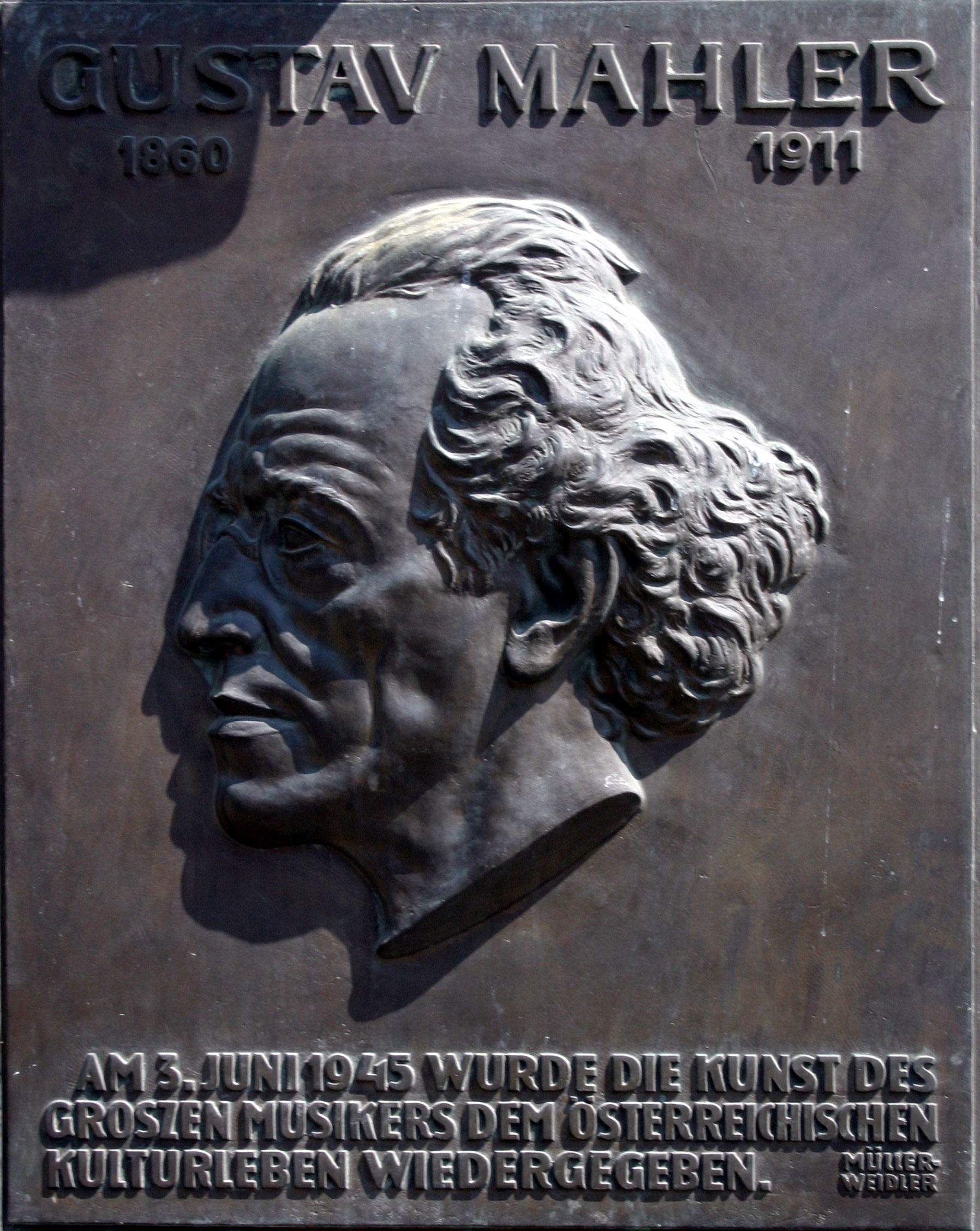 Konzerthaus in Vienna